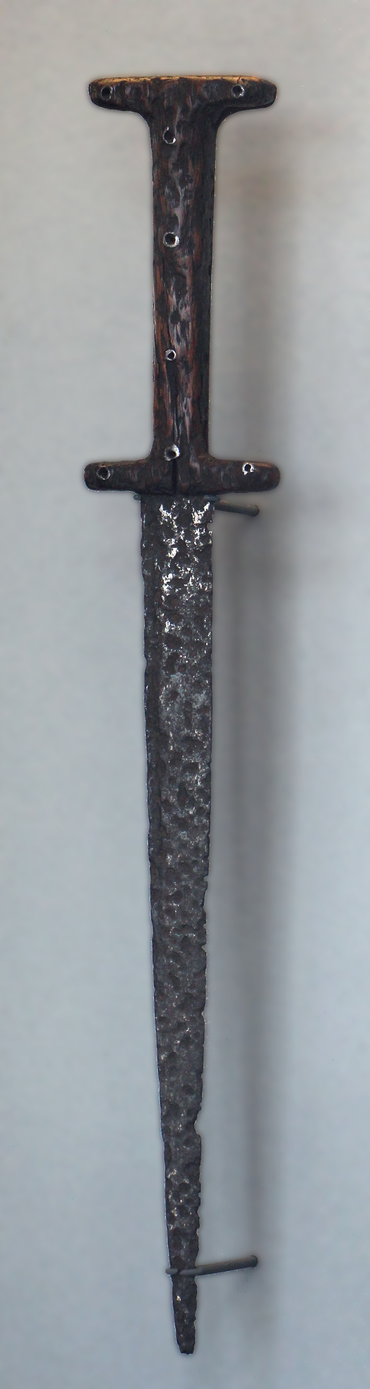 Baselard (Germany, 15th century). Iron, wood/ Deutsches Klingenmuseum (Solingen)